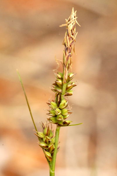 Carex pilulifera from Commanster, Belgian High Ardennes .